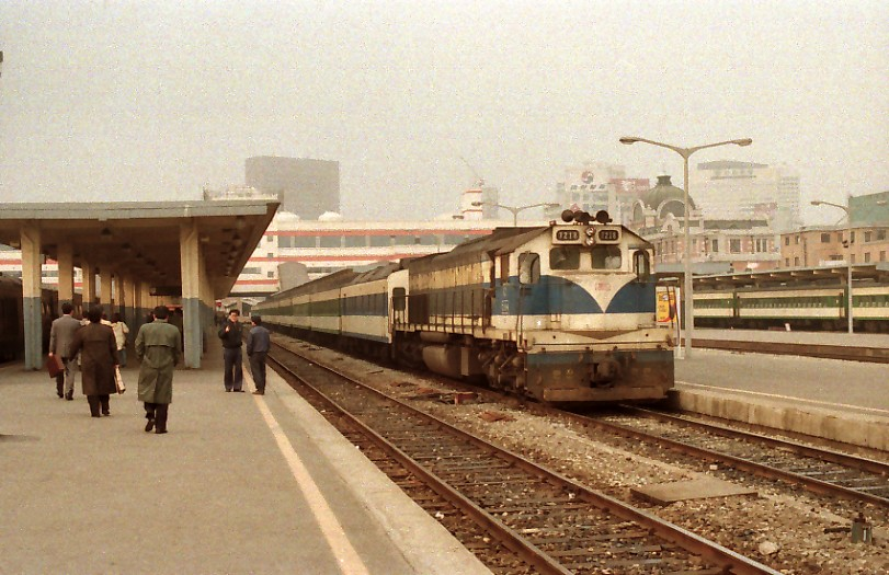 At Seoul station, South Korea, on 1988.